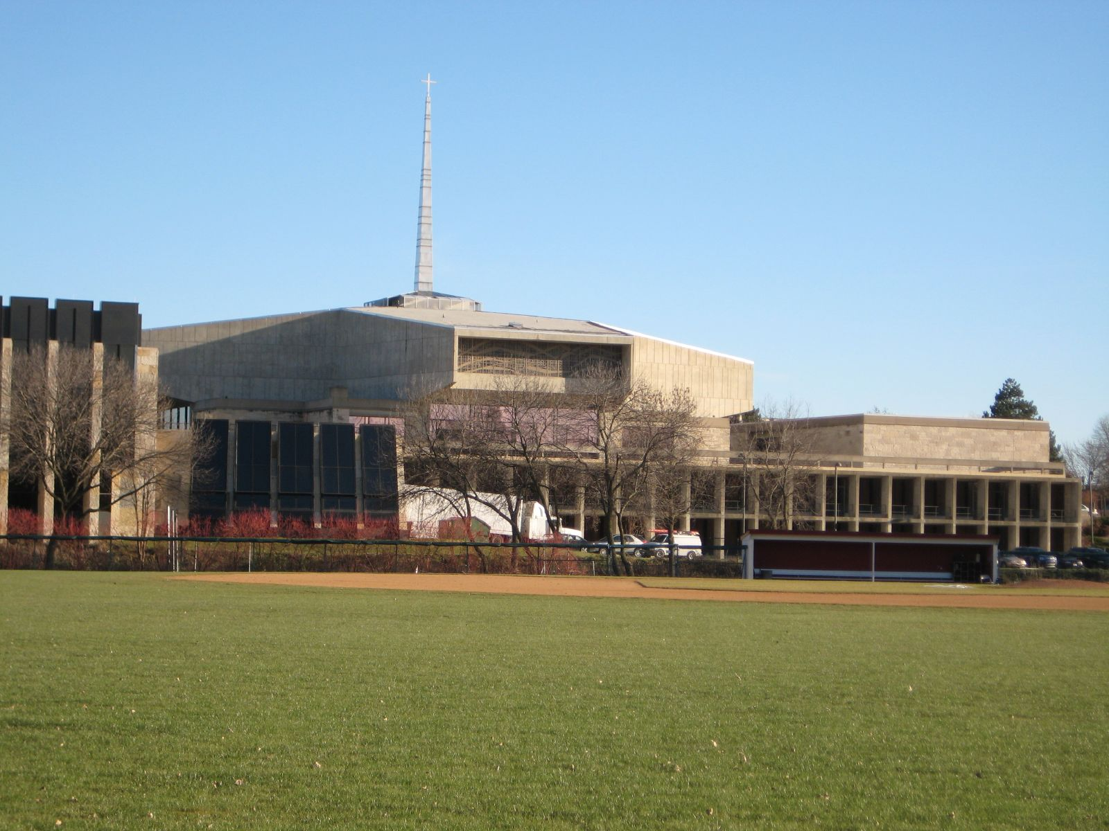 Carthage College campus, at Kenosha, Wisconsin, United States.